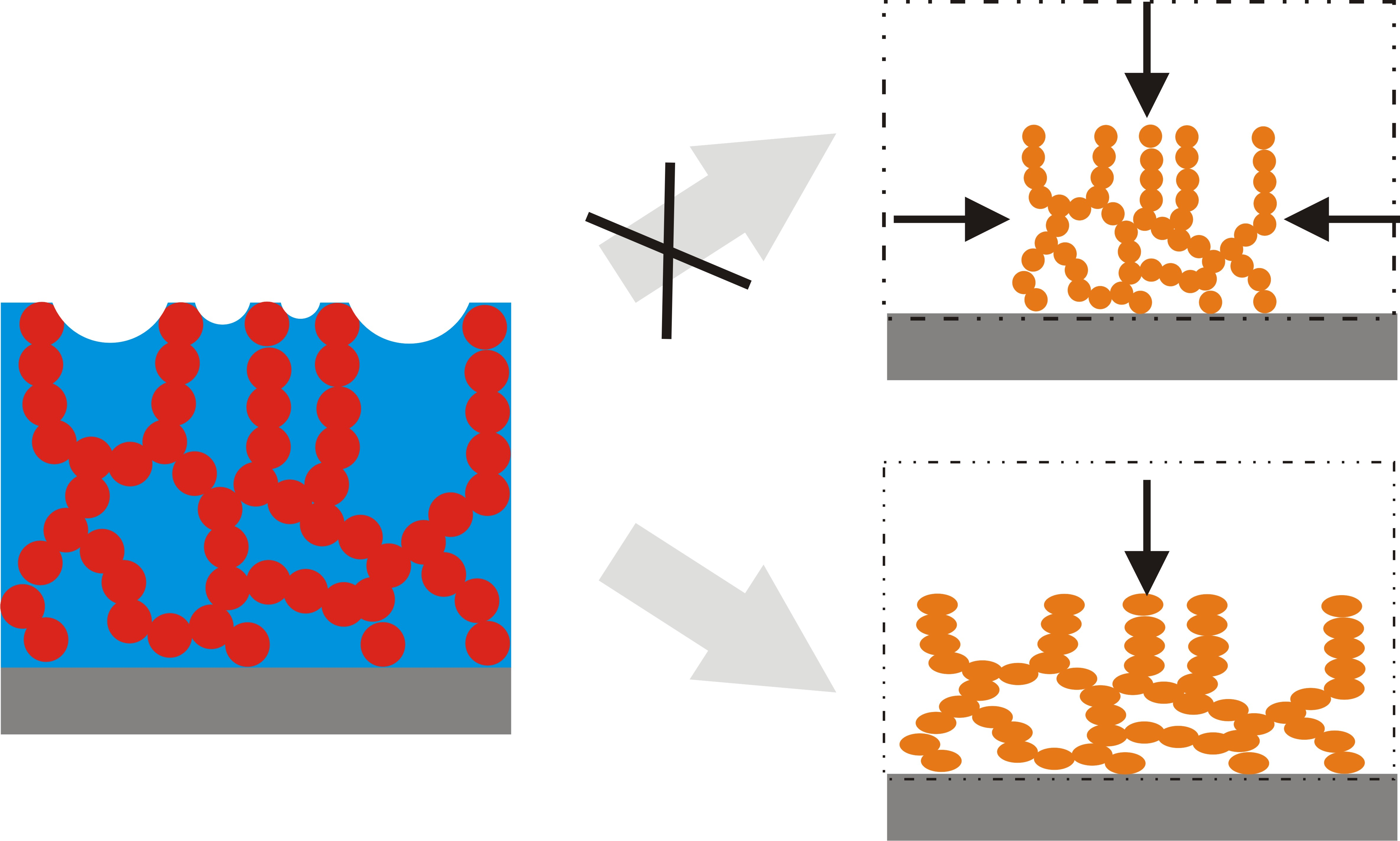 Tensile stress of sol-gel film during drying/densification